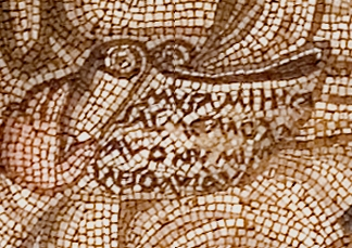 The great Latin poet, Virgil, holding a volume on which is written the Aenid. On either side stand the two muses: "Clio" (history) and "Melpomene" (tragedy). The mosaic, which dates from the 3rd Century A.D., was discovered in the Hadrumetum in Sousse, Tunisia and is now on display in the Bardo Museum in Tunis, Tunisia.